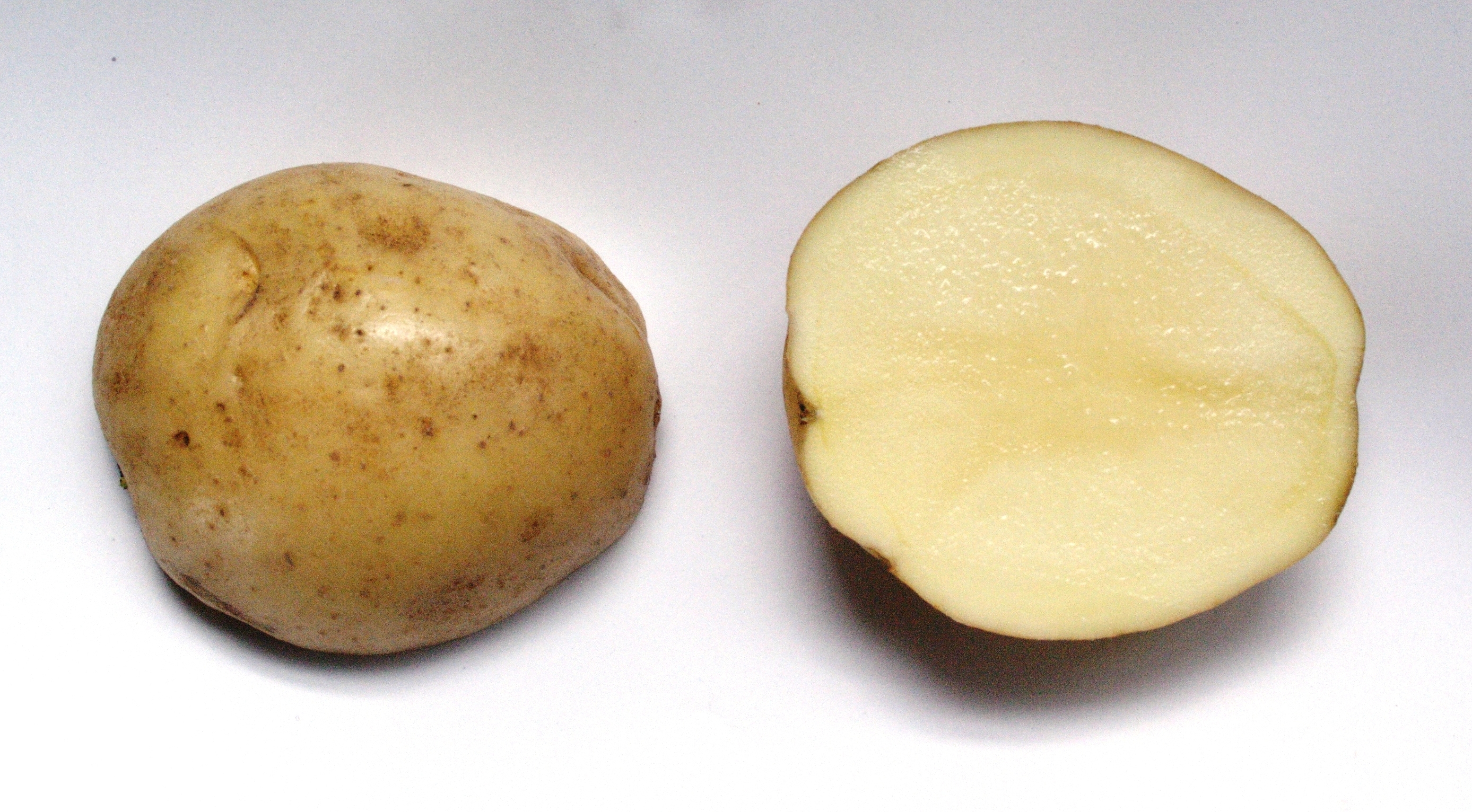 Japanese potato cultivar "Dejima"